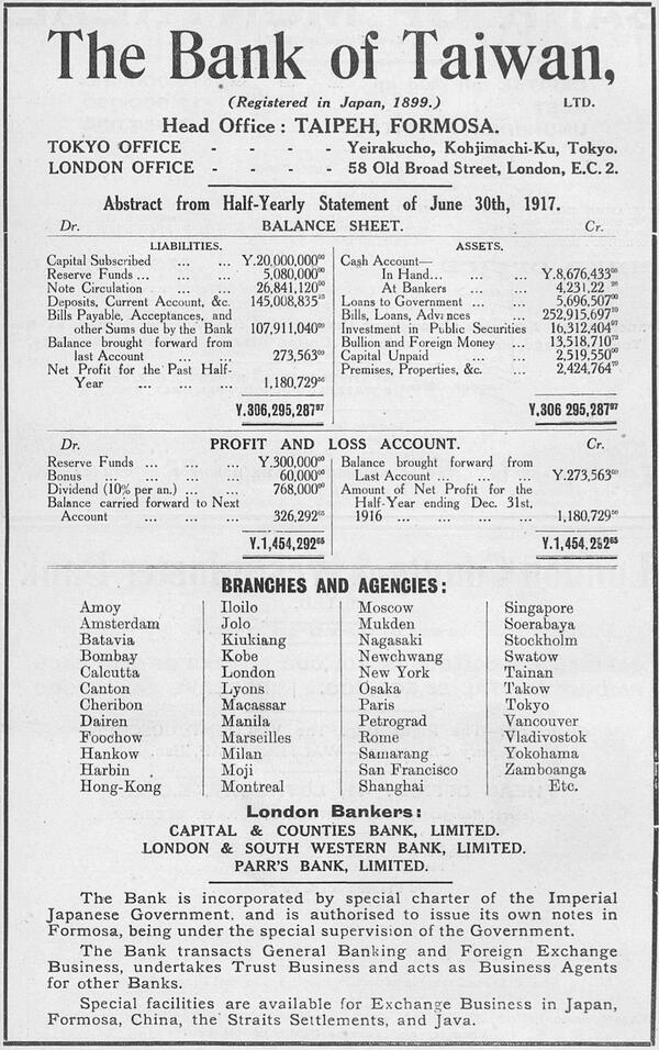 The Bank of Taiwan (ad), The Economist 1917-10-20